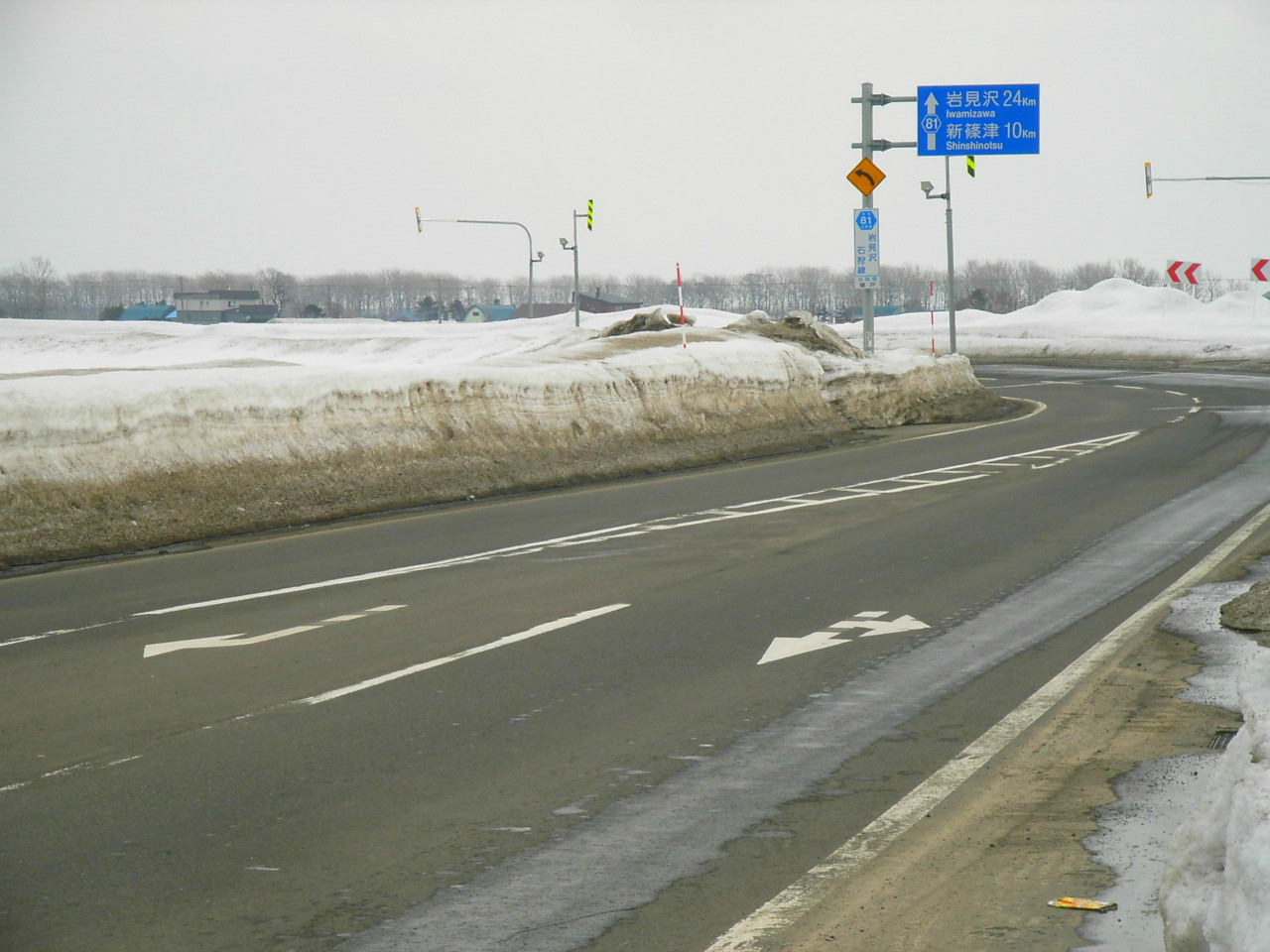 The Hokkaido Prefectural Road Route 81 (Iwamizawa - Ishikari Line) in Kabatocho, Tobetsu Town, view towards southeast from the intersection to the National Route 275